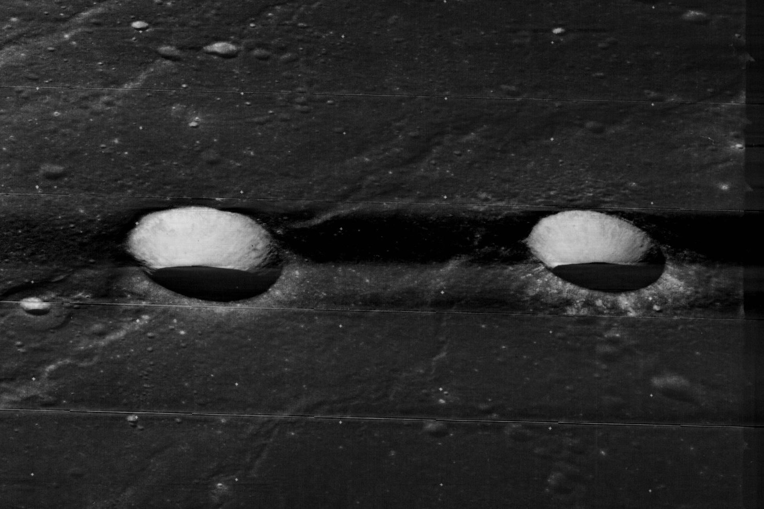 Oblique view of Taruntius K crater (right) and Taruntius P crater (left), located southeast of Taruntius